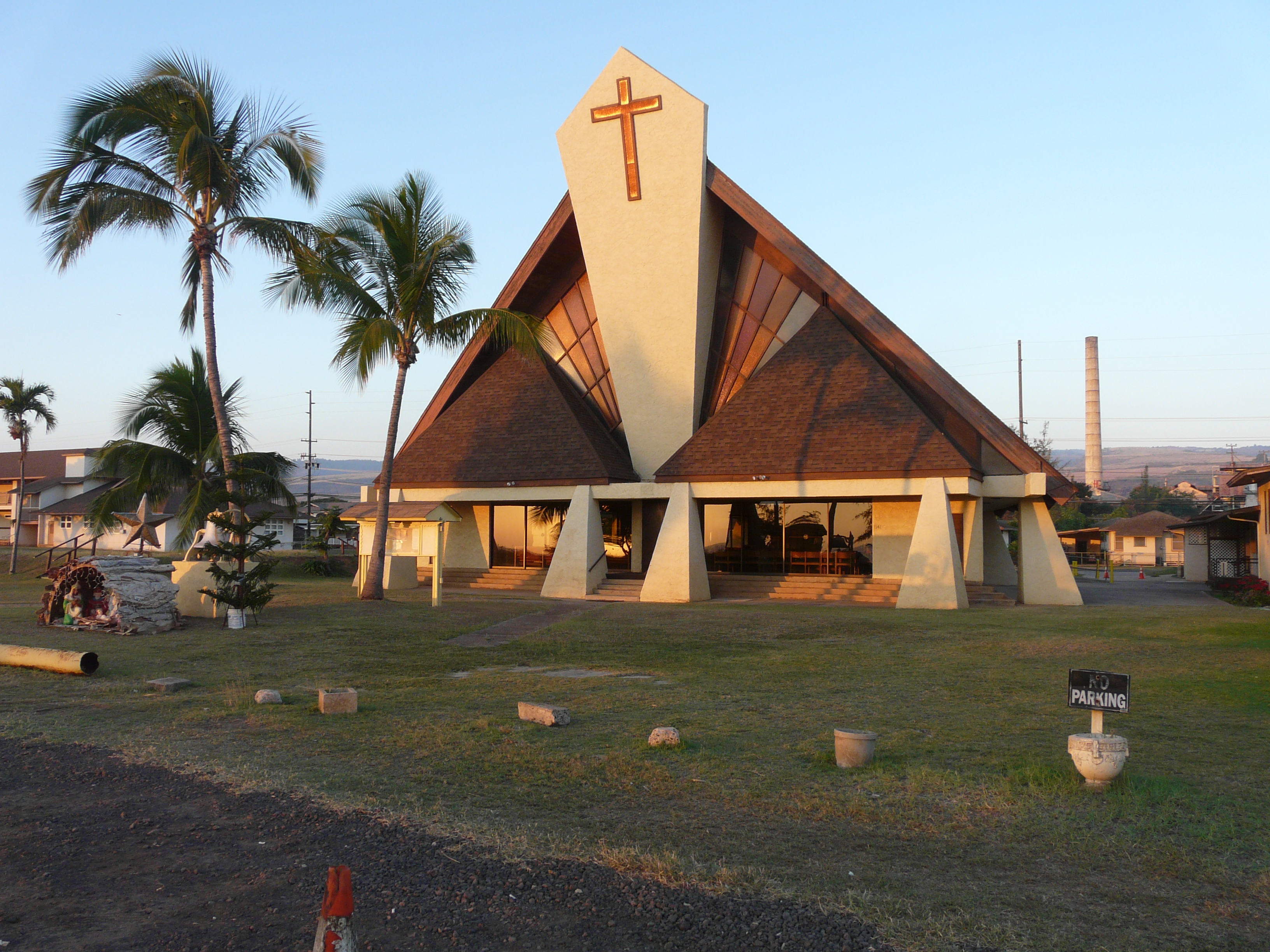 St. Theresa Catholic Church, Kekaha, Kauai, Hawaii - the westernmost Catholic Church in the United States.